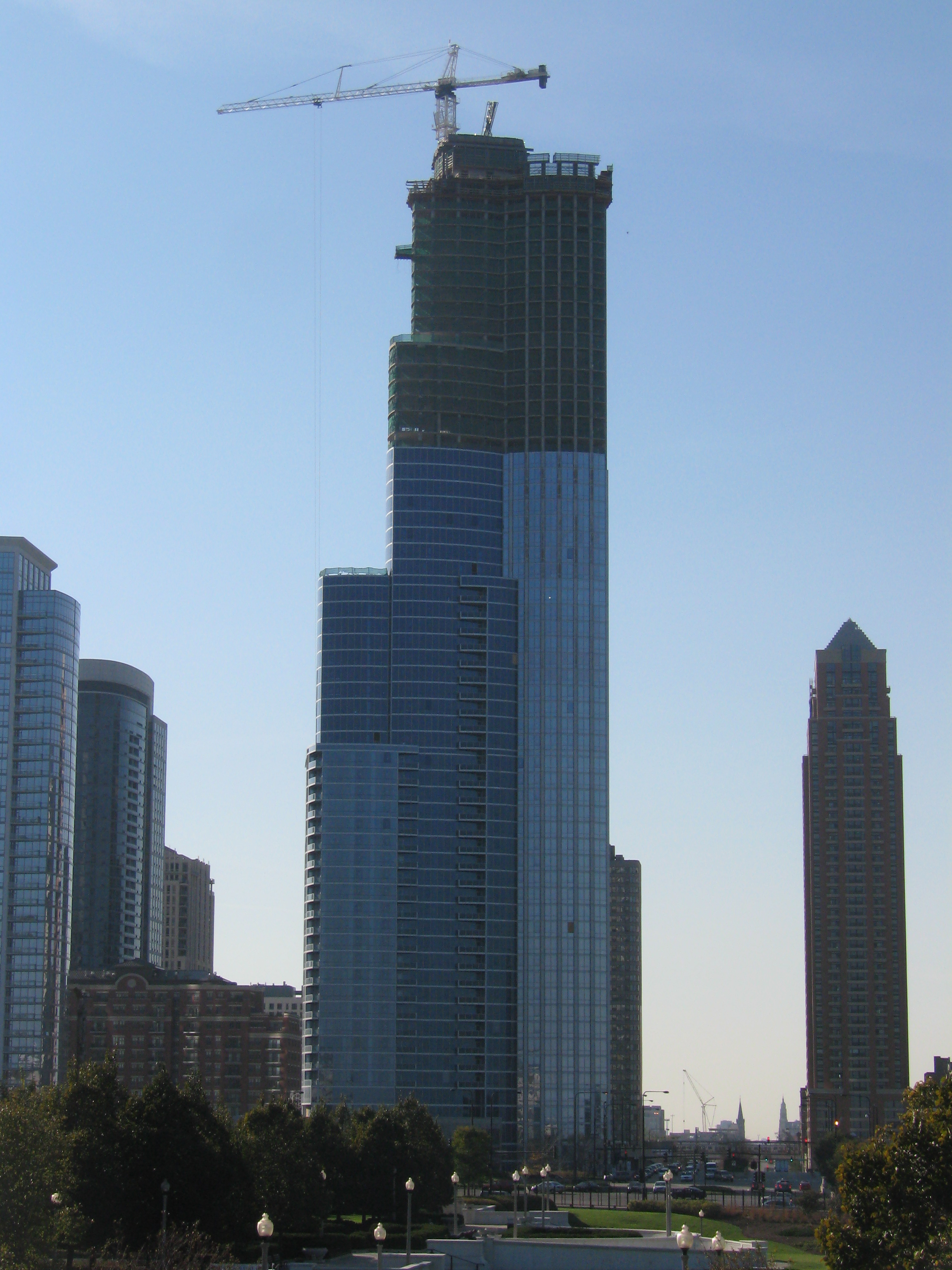 One Museum Park